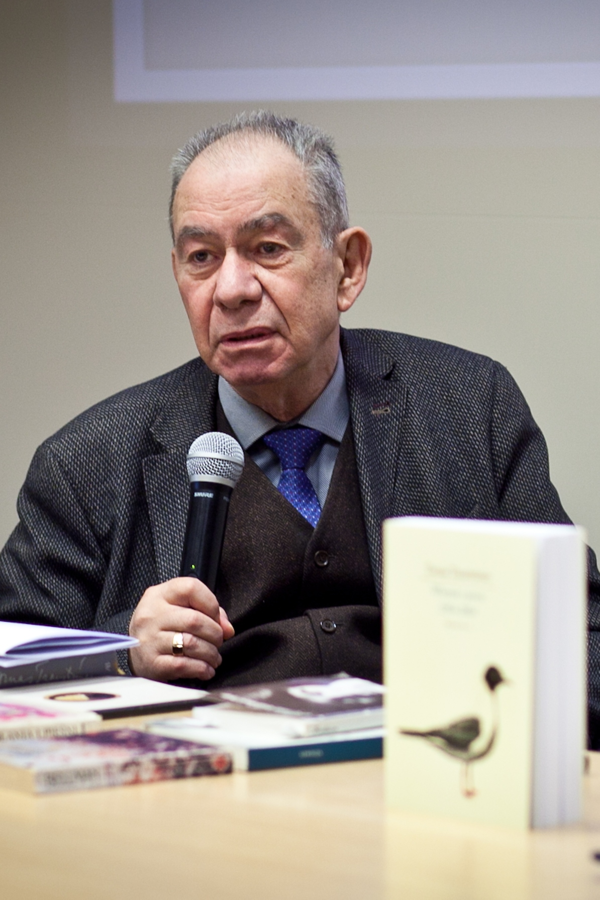 Leonard Neuger as a guest of IFG UJ, January 2019